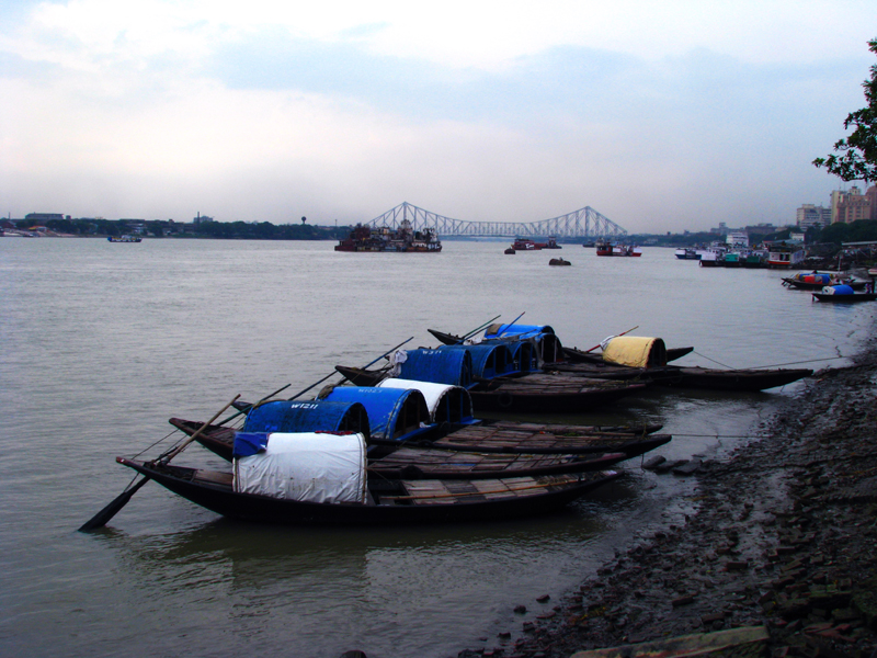 This photograph is taken from the bank of river Hoogly (Ganges) in Kolkata. The Howrah bridge can be seen in the backdrop which became synonymous with Kolkata. The boats with blue hood in the from are available for leisure ride, which are manually driven. My Photoblog